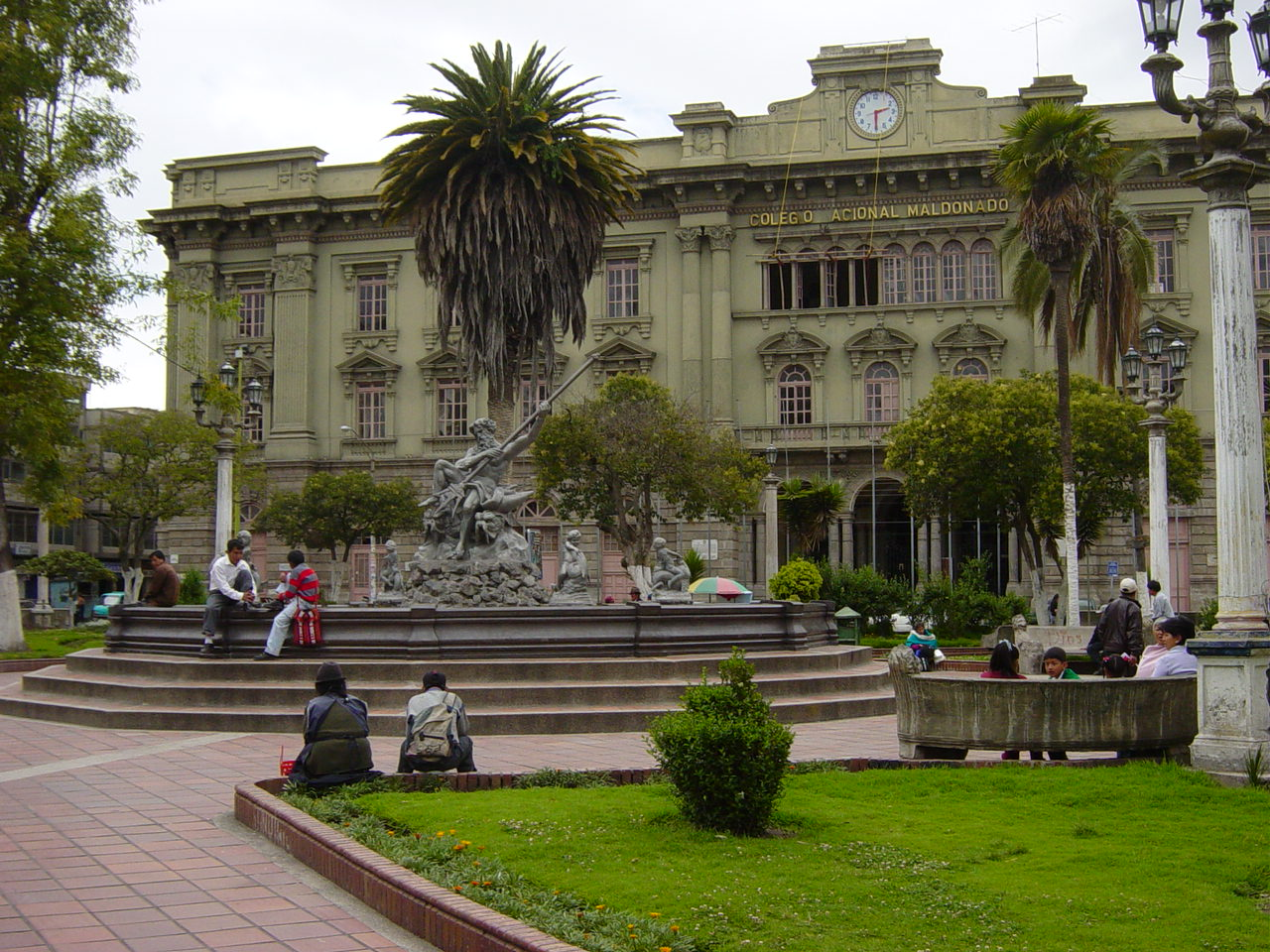 Park and college Maldonada in Riobamba, Ecuador.